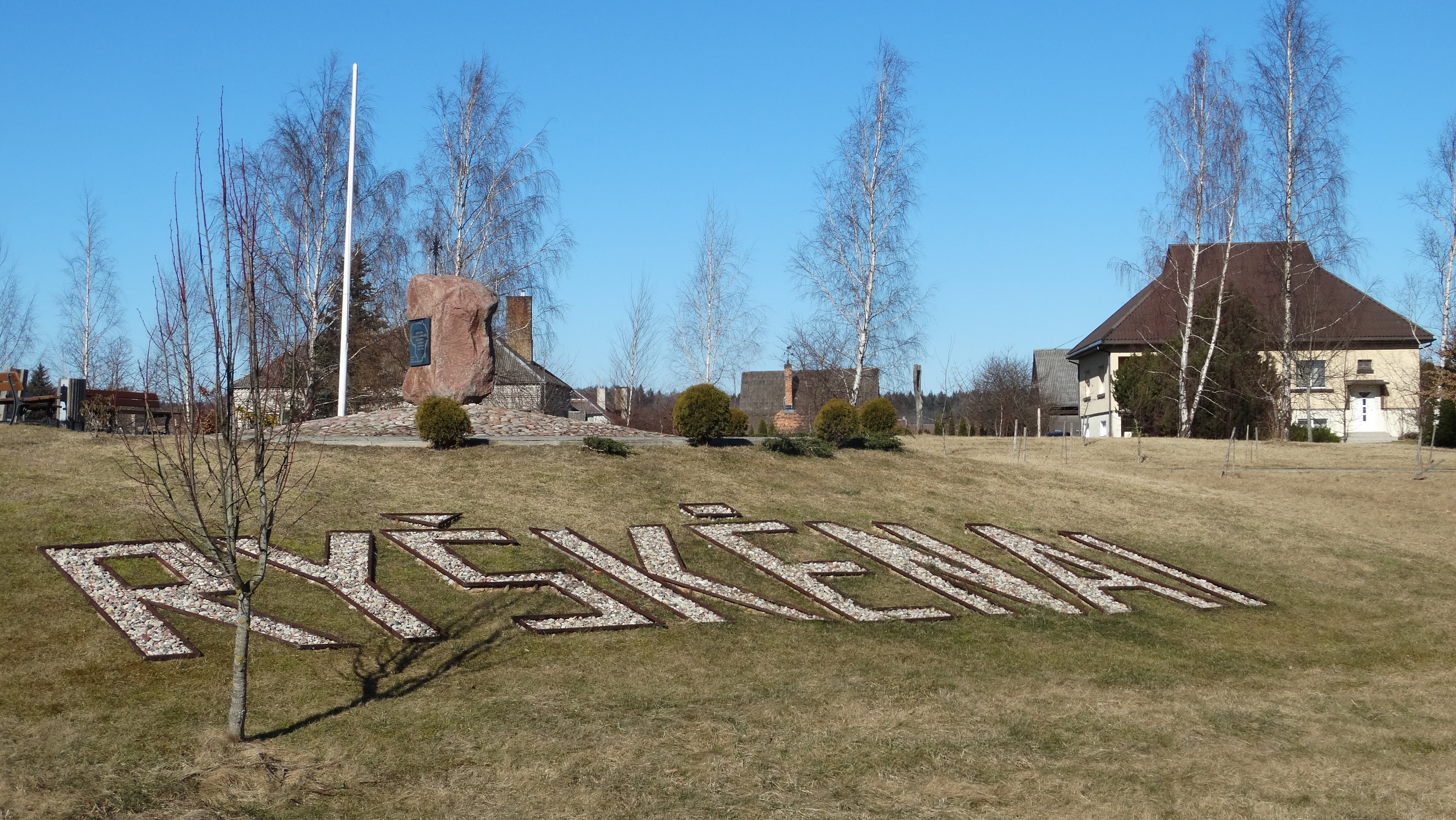 Ryškėnai, Telšiai district, Lithuania